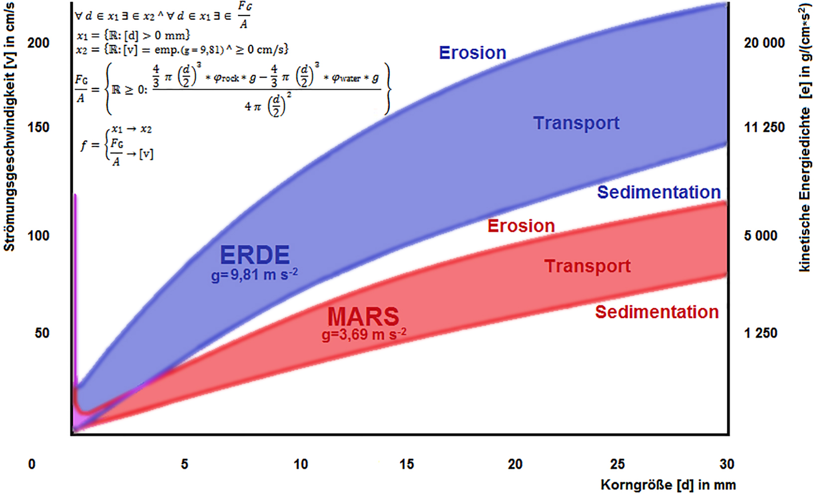 The “Zasada-Diagramm” shows the mathematical relationship between mean grain size [d] and mean flow velocity (of water) [v] in dependence on gravitation (here: Earth vs. Mars). The diagram implies that at flow velocities that would allow deposition on Earth, erosion would occur on Mars, due to its lower gravitation, with exception of the smallest grain sizes.